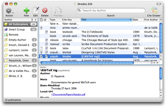 Screenshot of BibDesk